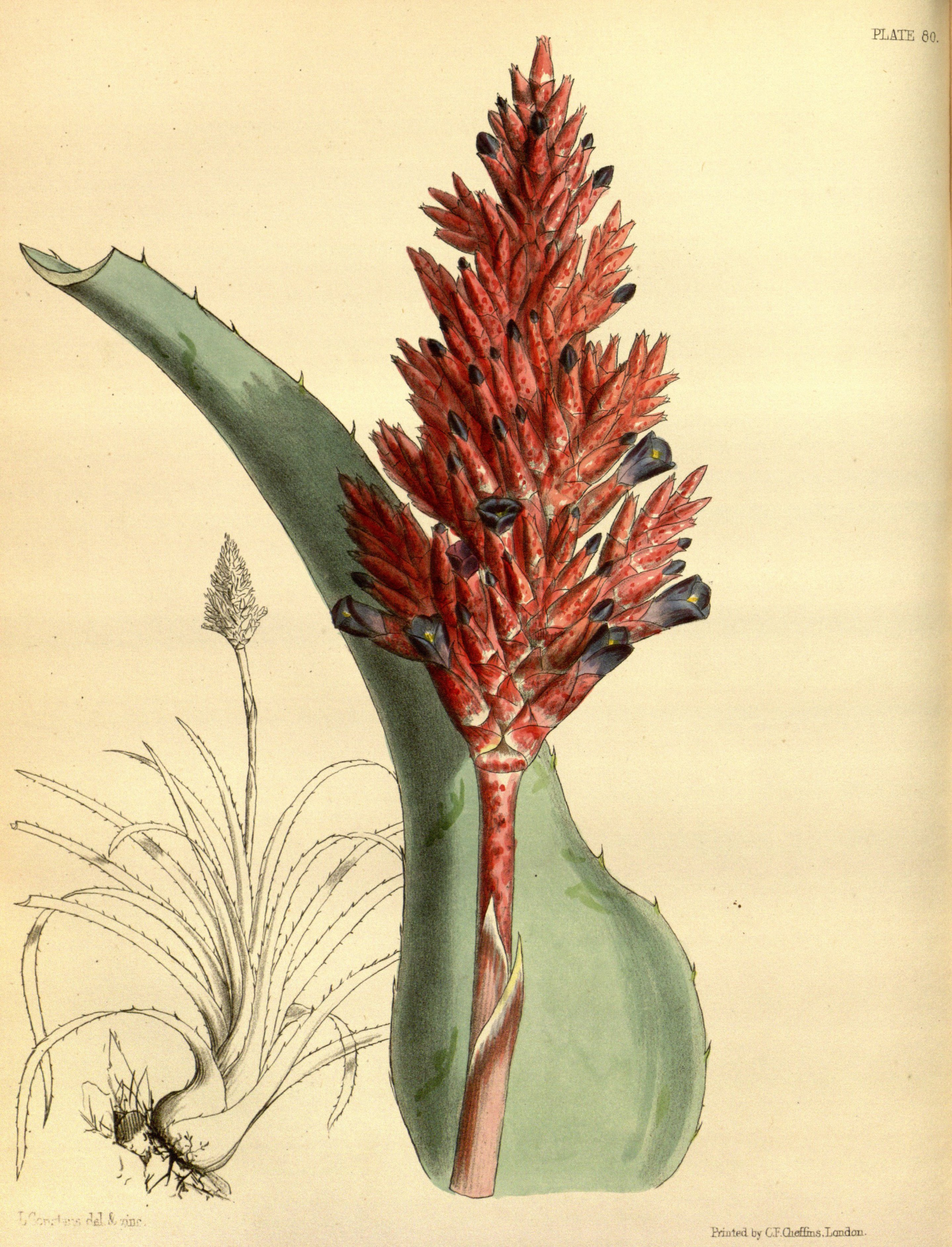 Aechmea distichantha Lem.